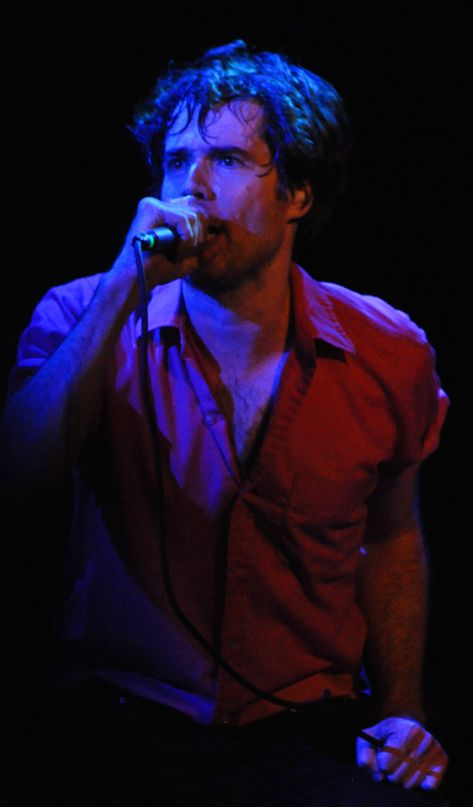 Jon Wurster of Superchunk, Music Hall of Williamsburg, Brooklyn, September 19, 2010